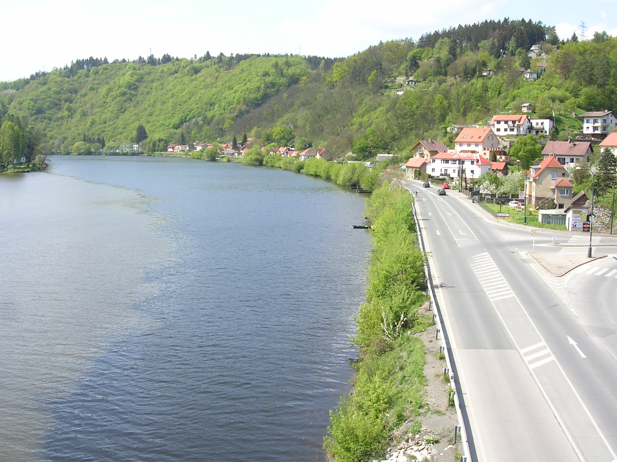 Davle, the Czech Republic. Confluence of Vltava River and Sázava River.